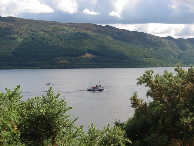 Boat tour, Loch Ness. Tourist boat on Loch Ness, probably from Jacobite Cruises. Taken from NH544308. A gift, as documenting this vast loch is going to very challenging from a variety point of view.